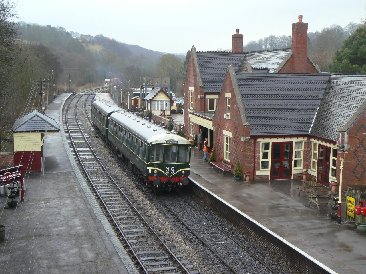 Diesel train at Froghall Operating on a special members' open day.